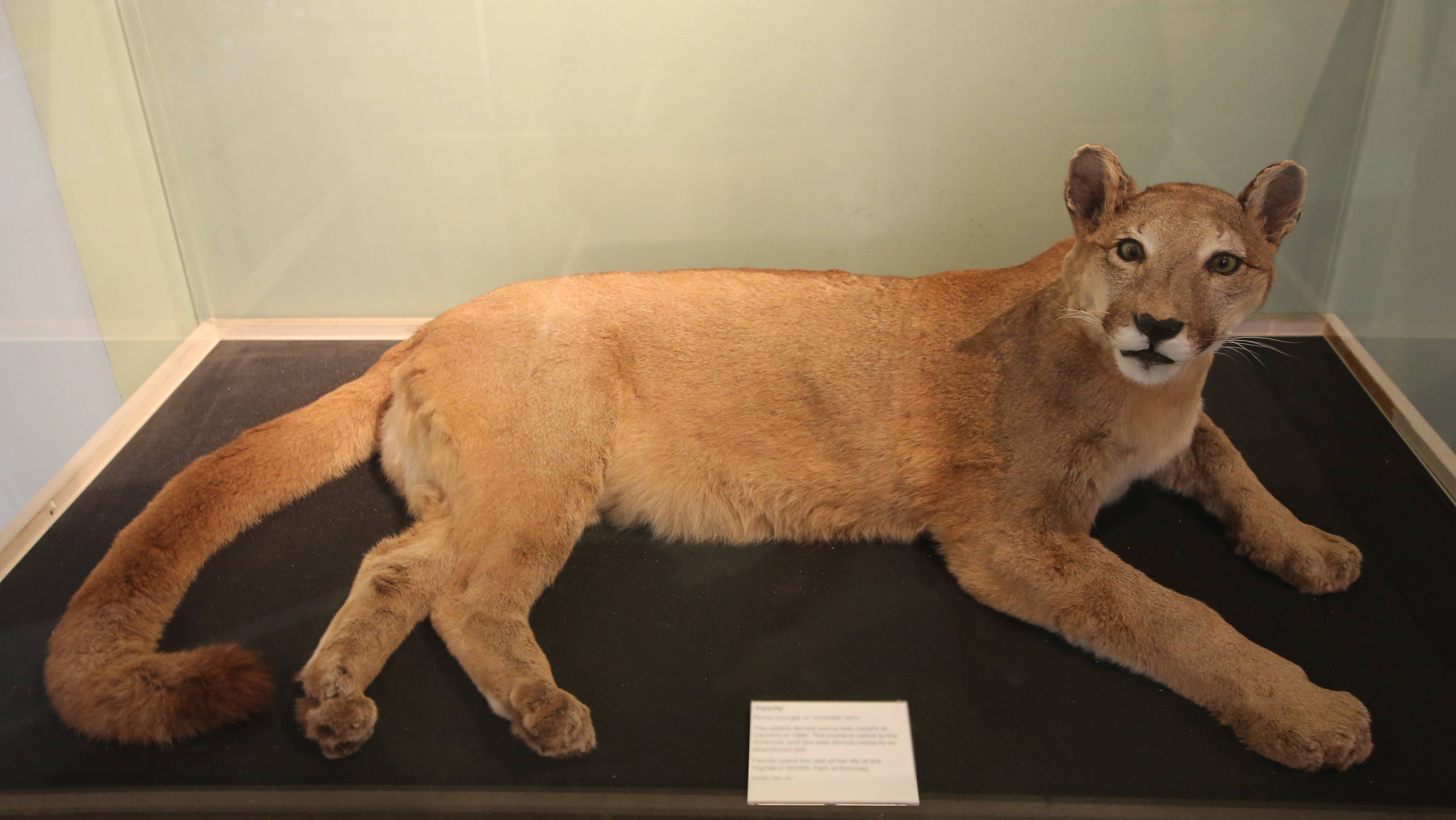 photo of the taxidermied remains of "Felicity" a Puma captured in the wild near Cannich in Scotland in 1980